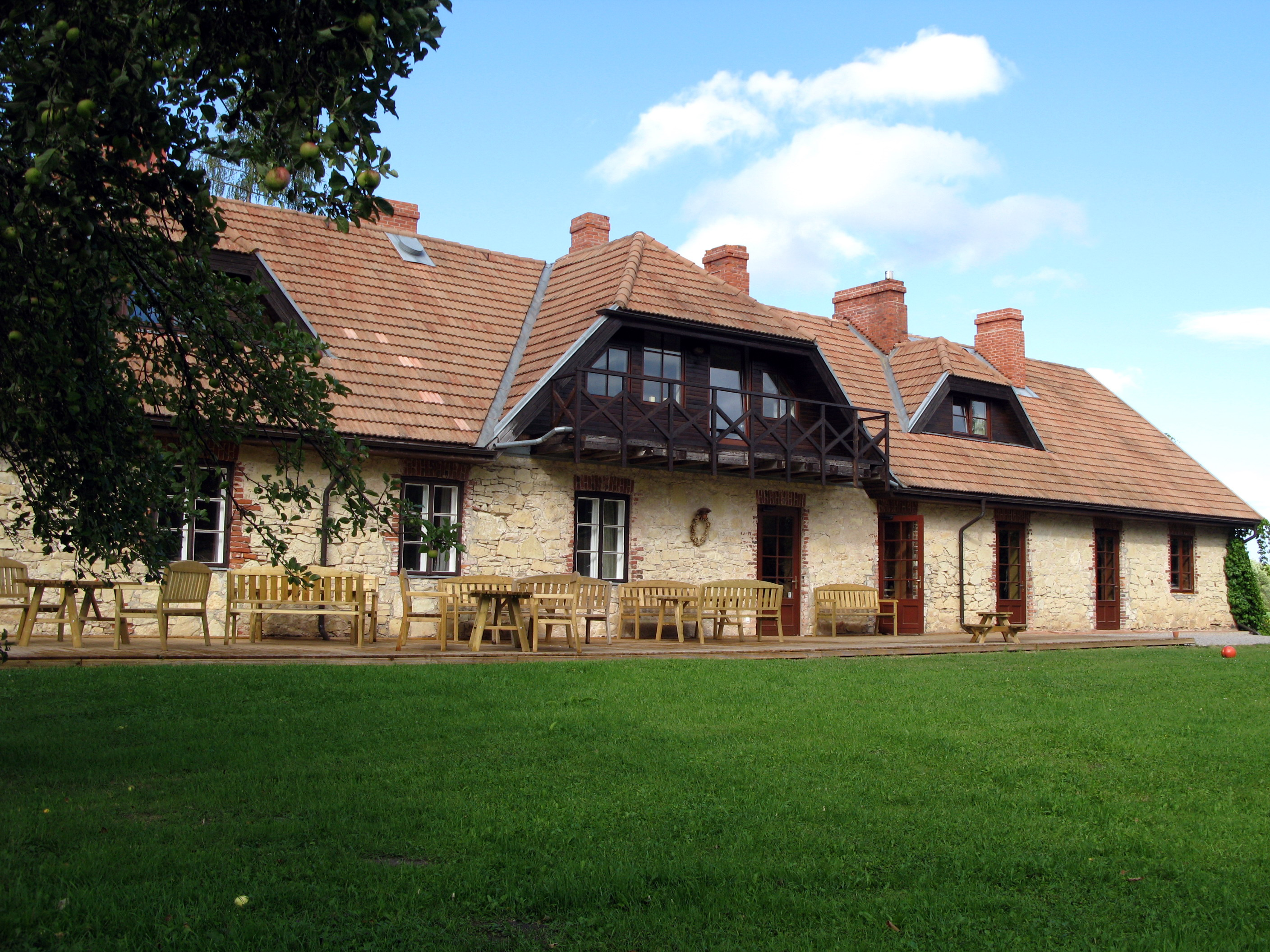 Hotel in former Karlsruhe manor